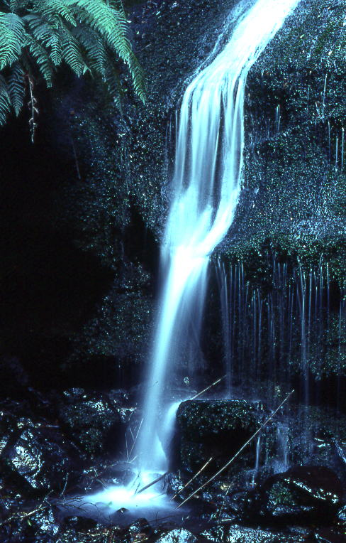 Creek, Mt Wilson, NSW, Australia